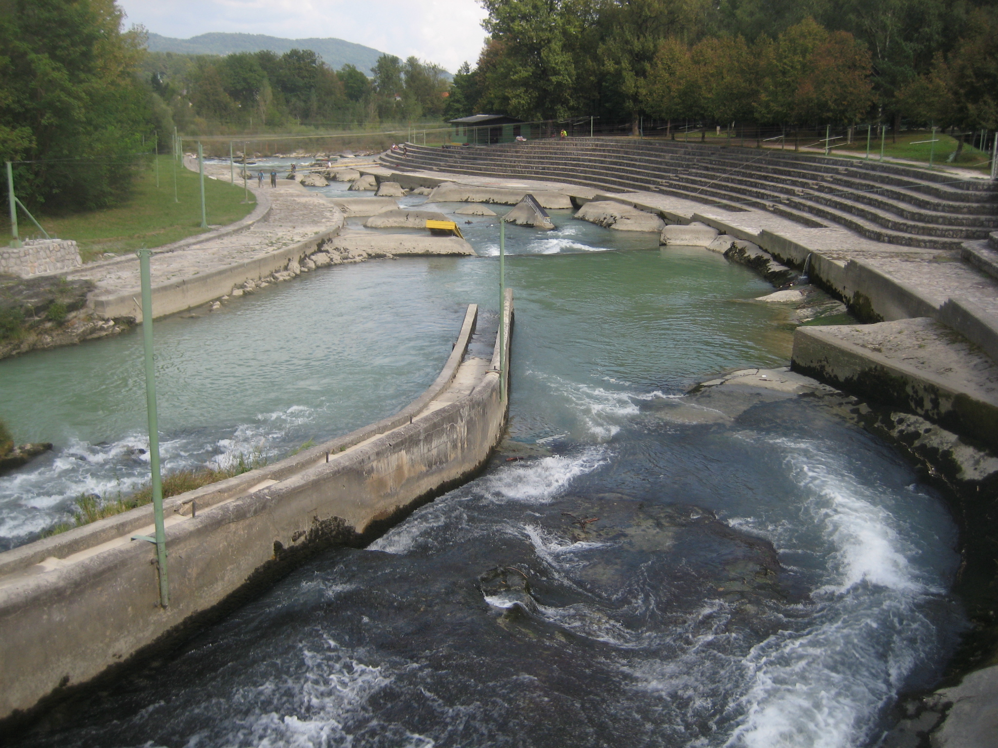 Sava river